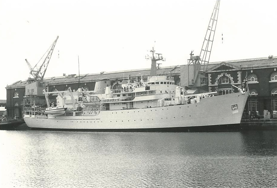 HMS Herald (1974), in Portsmouth Harbour,, Portsmouth, Hampshire for Portsmouth Navy Day 1980.